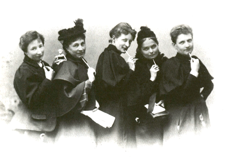 Five members of the "Association for Women's Suffrage". Left to right: Anita Augspurg, Marie Stritt, Lily von Gizycki, Minna Cauer und Sophia Goudstikker, in 1896